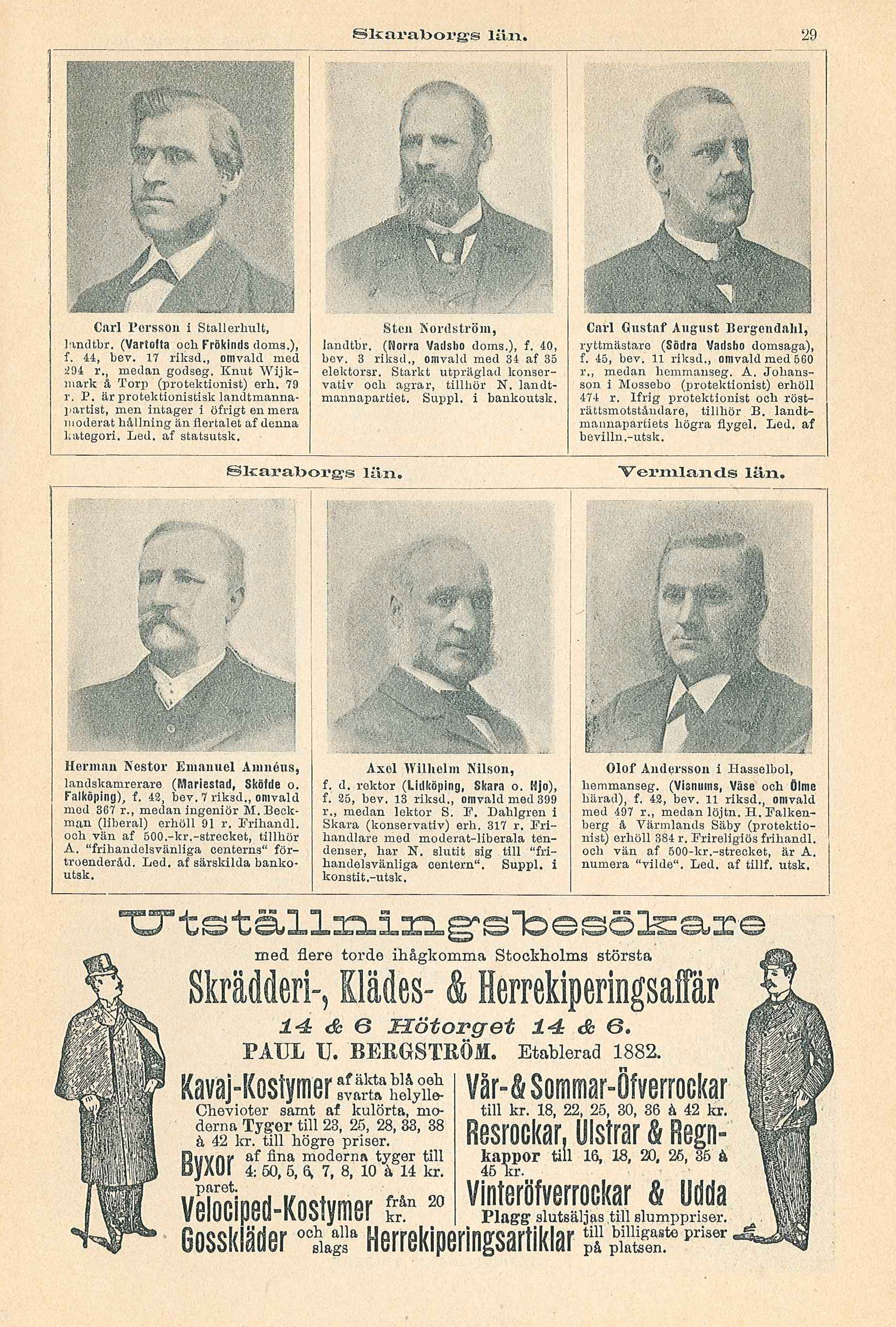 Page 29 of an album featuring portraits of all the members of the second chamber of the Swedish parliament (Sveriges riksdag) elected in 1897. This page featuring parts of the members representing the counties of Skaraborg and Värmland.